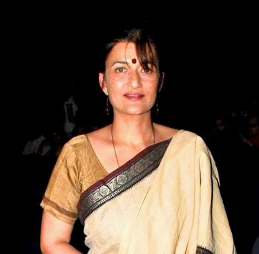 Sarika at 'Get Rid of my Wife' movie premiere party